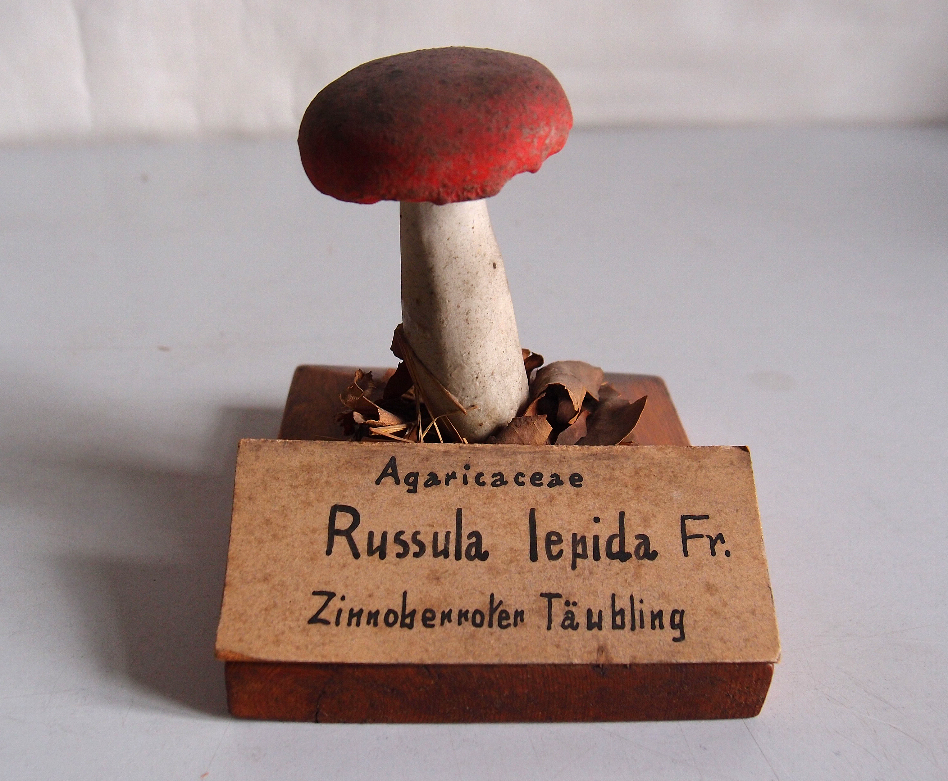 Model from the collection of the Botanical Museum in Greifswald, Germany. . see also for more information on the models